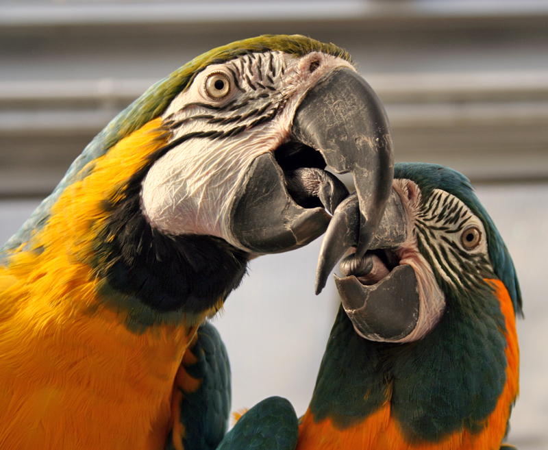 A male Blue-and-Gold Macaw (left) and a female Blue-throated Macaw (right). Captive birds in Canada. There is no sexual dimorphism in these species. The gender of these birds are as stated in the caption on flickr.